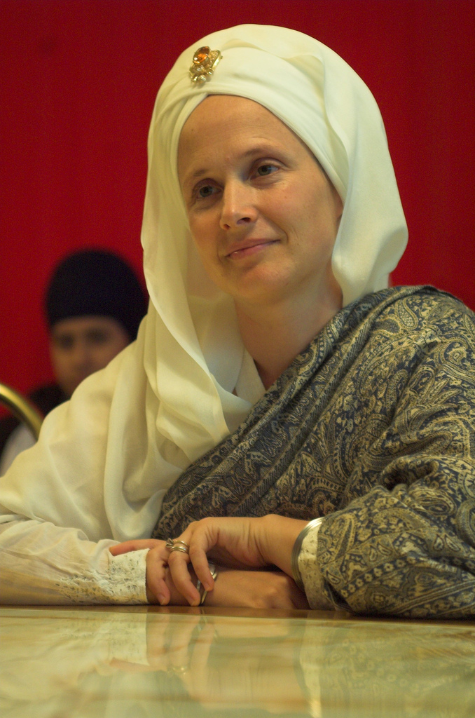 This photo was taken on September 10, 2007 in Hockley, Birmingham, England, GB, using a Nikon D70.